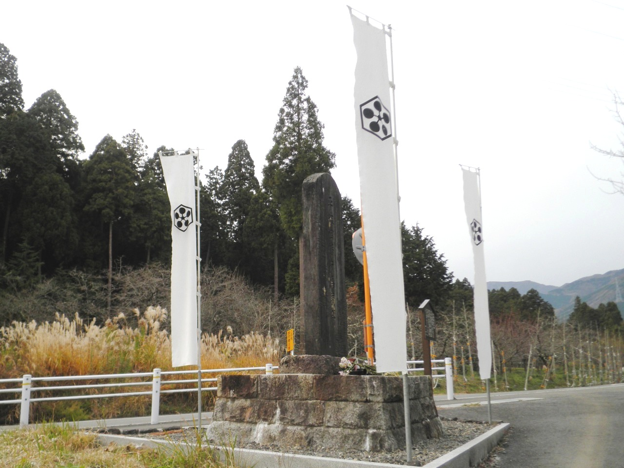 Monument of Hiratsuka Tamehiro who was killed in the Battle of Sekigahara.